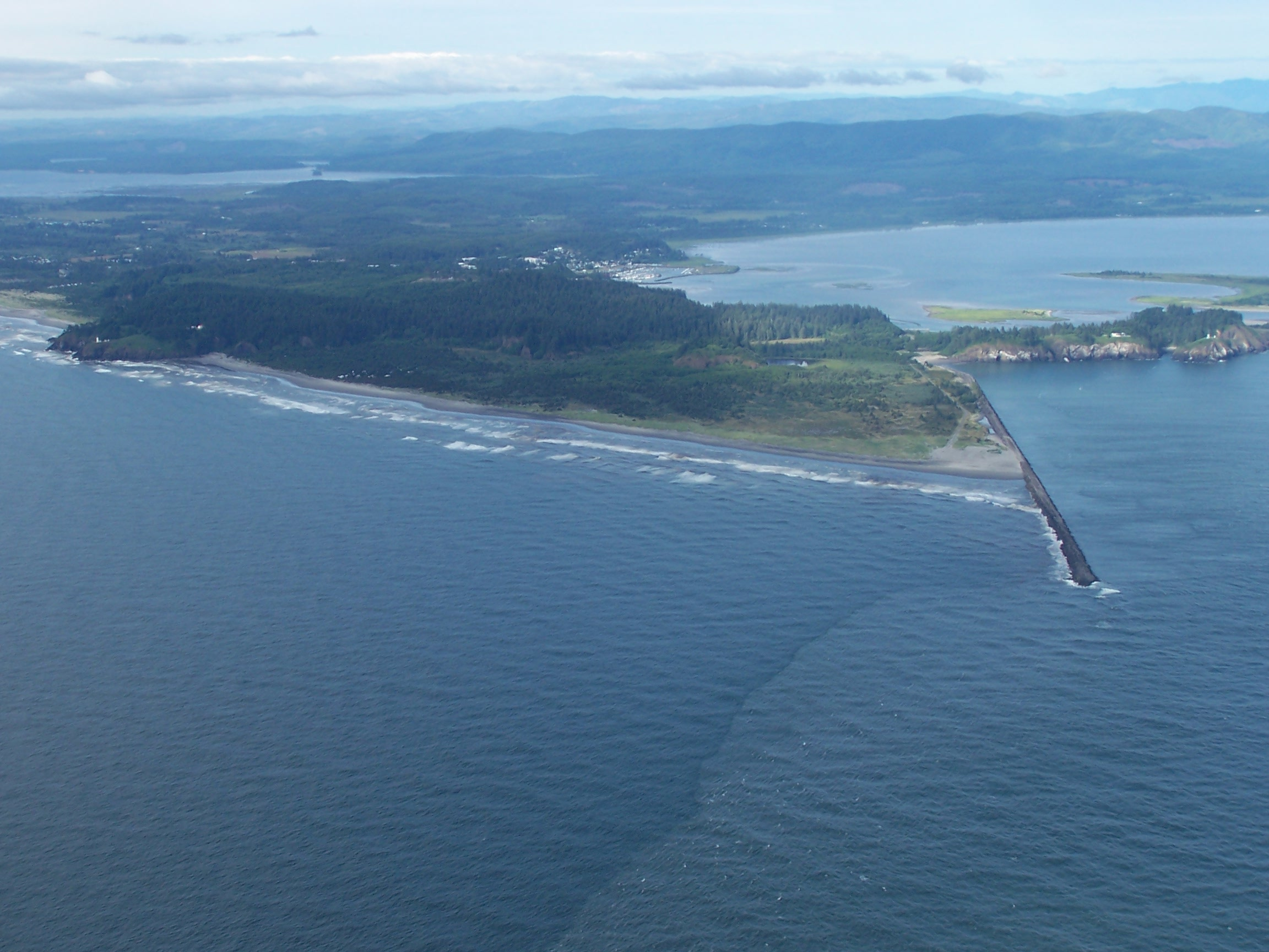 Cape Disappointment, Washington, at the mouth of the Columbia River on the Pacific Ocean. View is to the northeast. The town of Ilwaco, Washington is at upper center. The Pacific Ocean is in front and the mouth of the Columbia is at right. The southern portion of Willapa Bay can be seen at upper left.